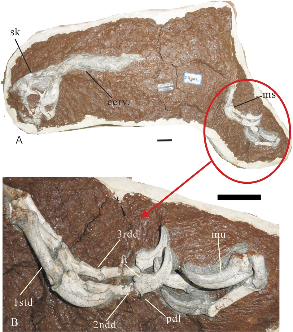 (A); a close up of the phalanges of the right and left hand (B). Abbreviations: 1std., the first digit; 2ndd., the second digit; 3rdd., the third digit; cerv., cervical vertebrae; ft., flexor tubercle; ms., manus; mu., manual ungual; pdl., proximodorsal lip; sk., skull. Scale bar = 5 cm.